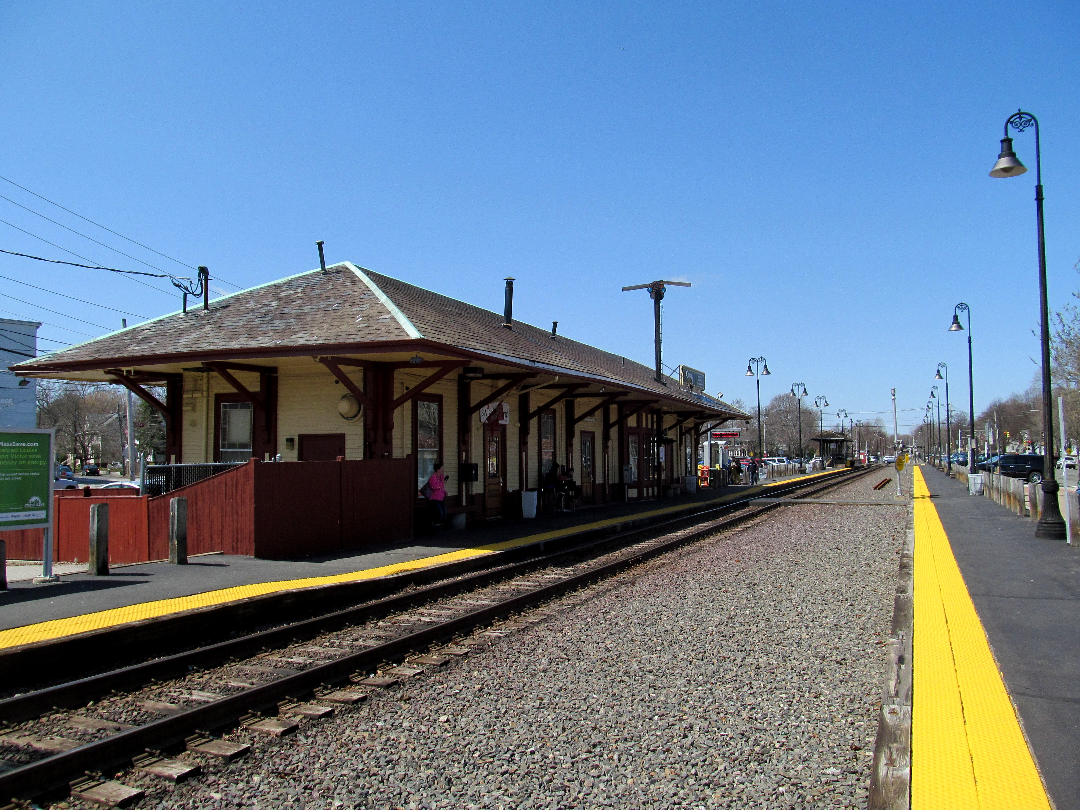 Reading station viewed from the outbound platform. The second track was not rebuilt through the station when the outbound platform was built, so the inbound platform serves trains in both directions.